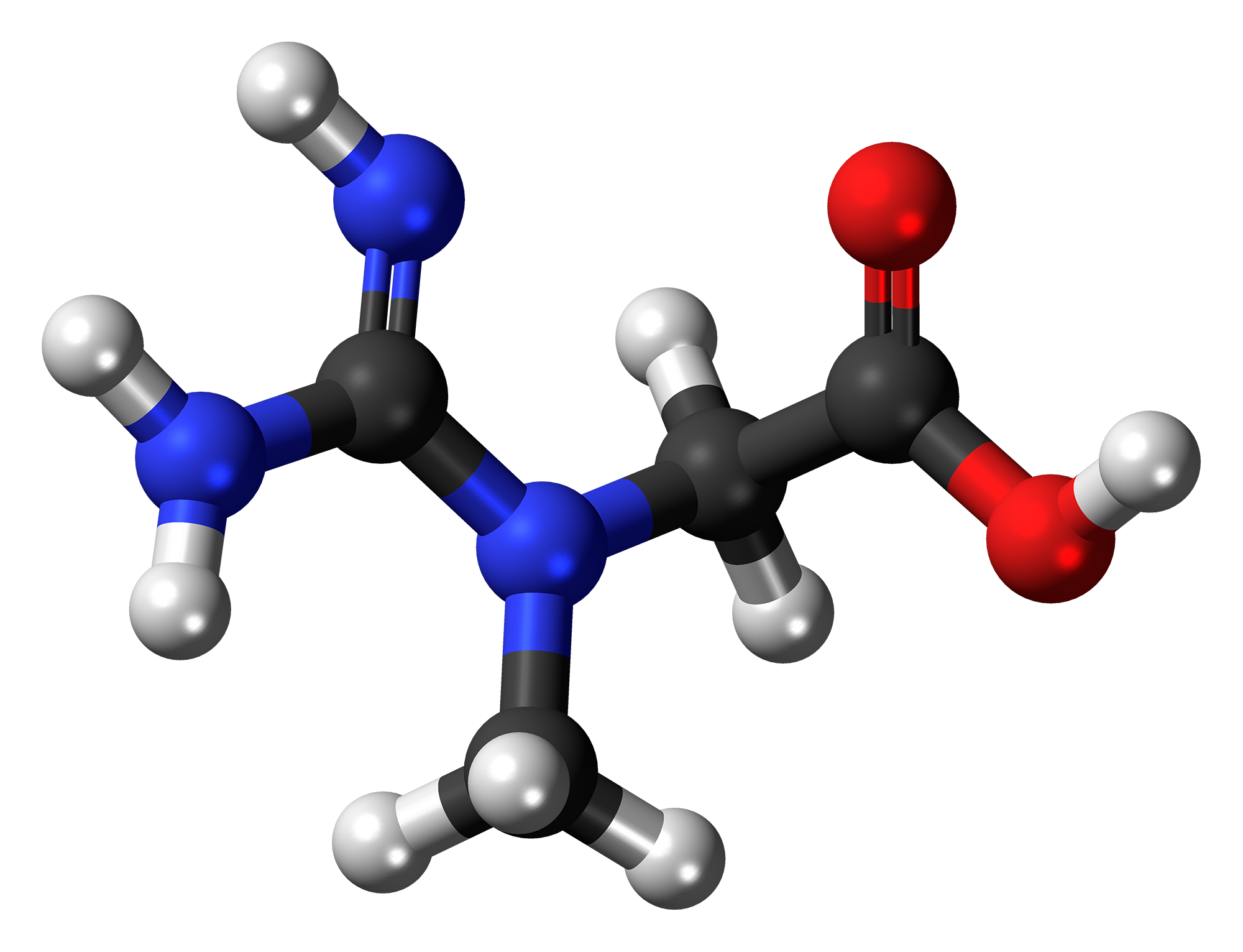 Ball-and-stick model of the creatine molecule, a compound that helps supply energy to all cells of the body. This image shows the electrically neutral form. Color code: Carbon, C: black Hydrogen, H: white Oxygen, O: red Nitrogen, N: blue